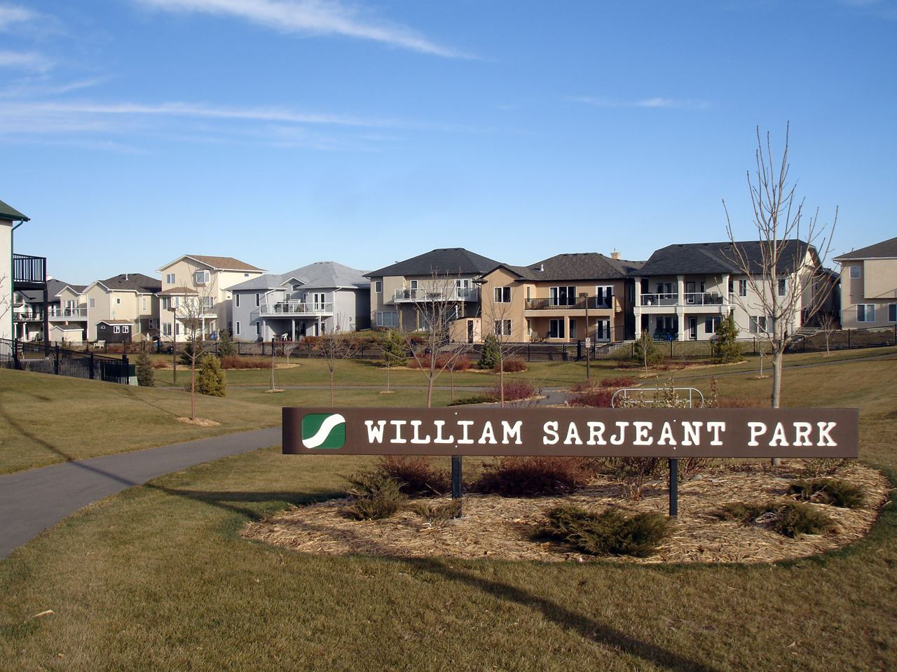 William Sarjeant Park, one park in a linear park system found in the Willowgrove neighbourhood of Saskatoon, Saskatchewan, Canada.